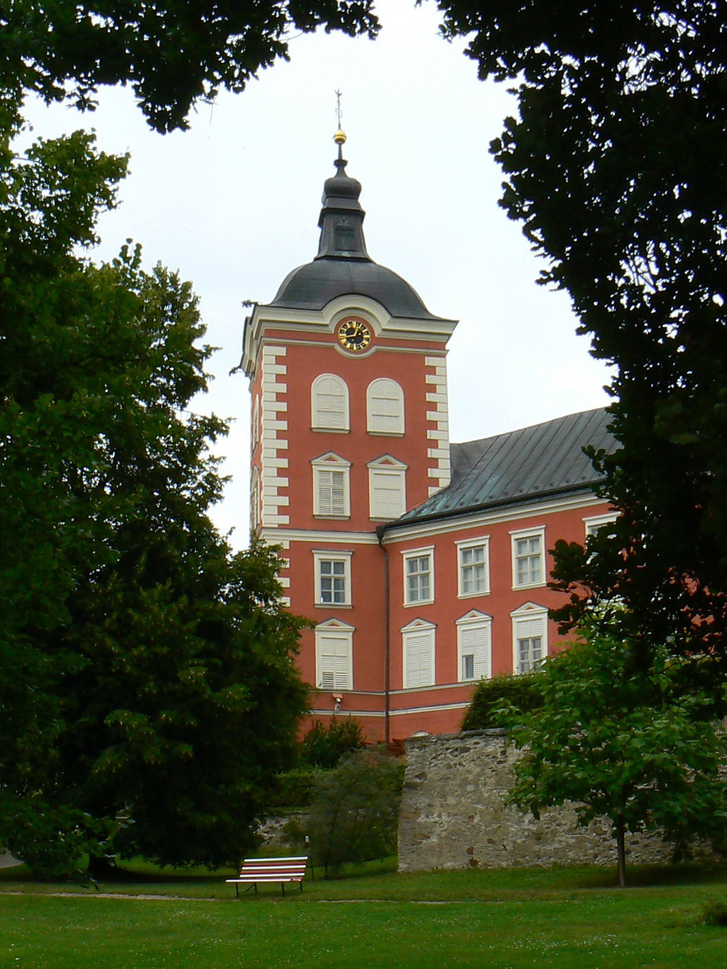 Chateau in Kamenice nad Lipou, Czech Republic